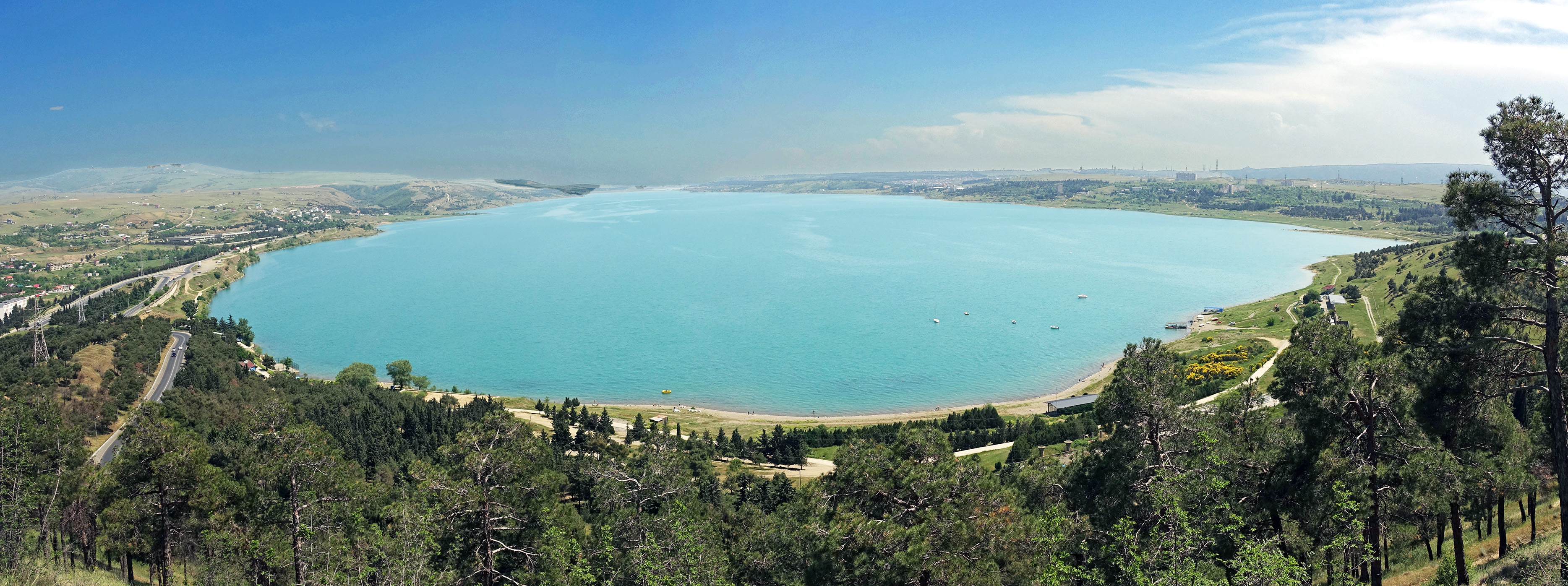 Tbilisi Sea in May 2018, Georgia.